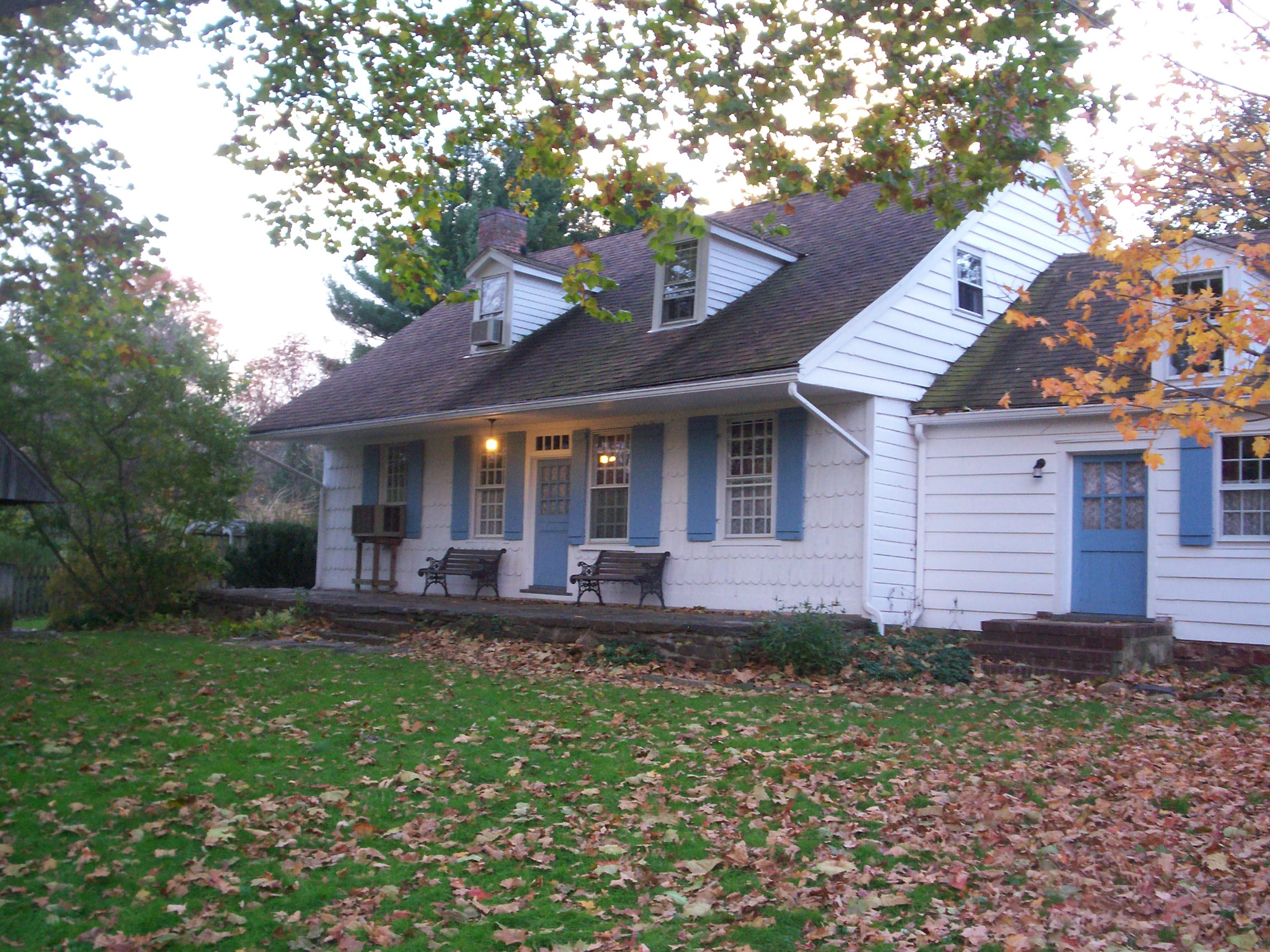 Van Wickle House in Somerset. This is the side of the house that faces the Delaware and Raritan Canal and was the original entrance to the house.